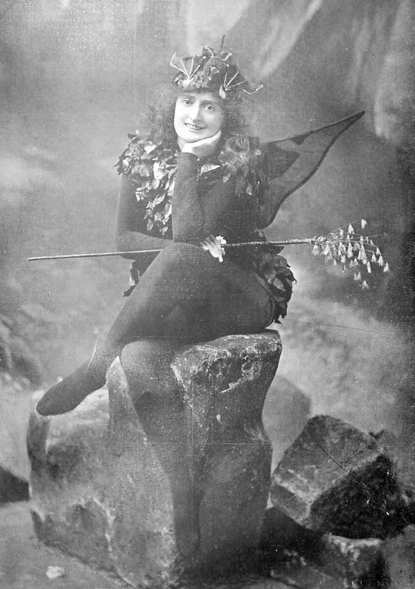 Beatrice Ferrar as Puck in A Midsummer Night's Dream - The Tatler, 20 December 1905